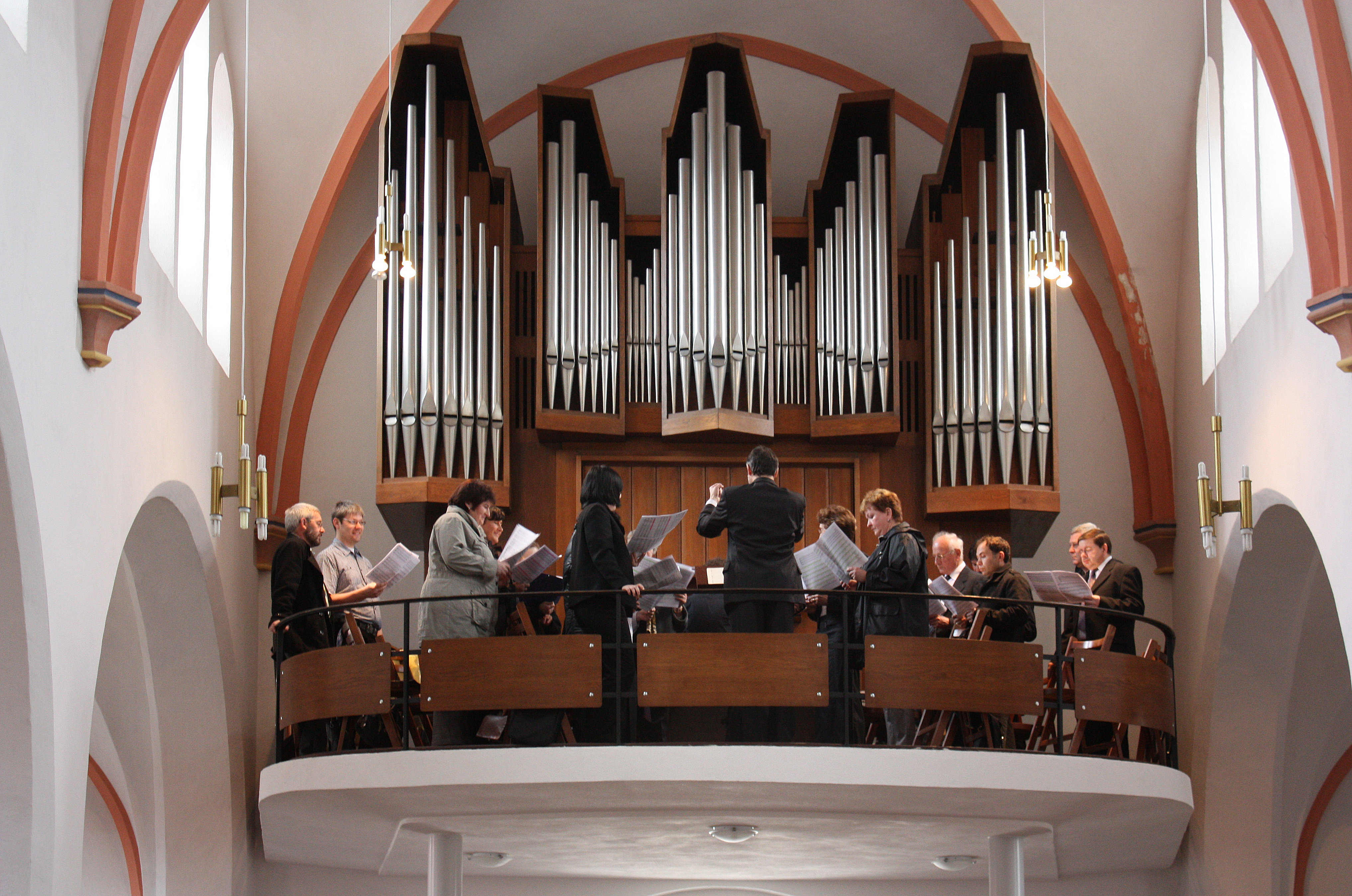 Sangerhausen, Sacred Heart Church, concert